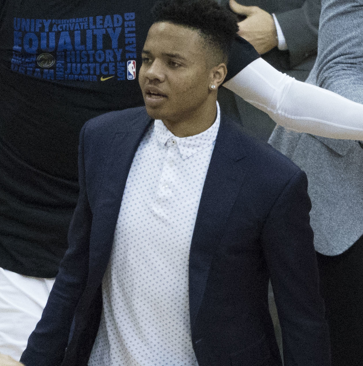 76ers at Wizards 2/25/18